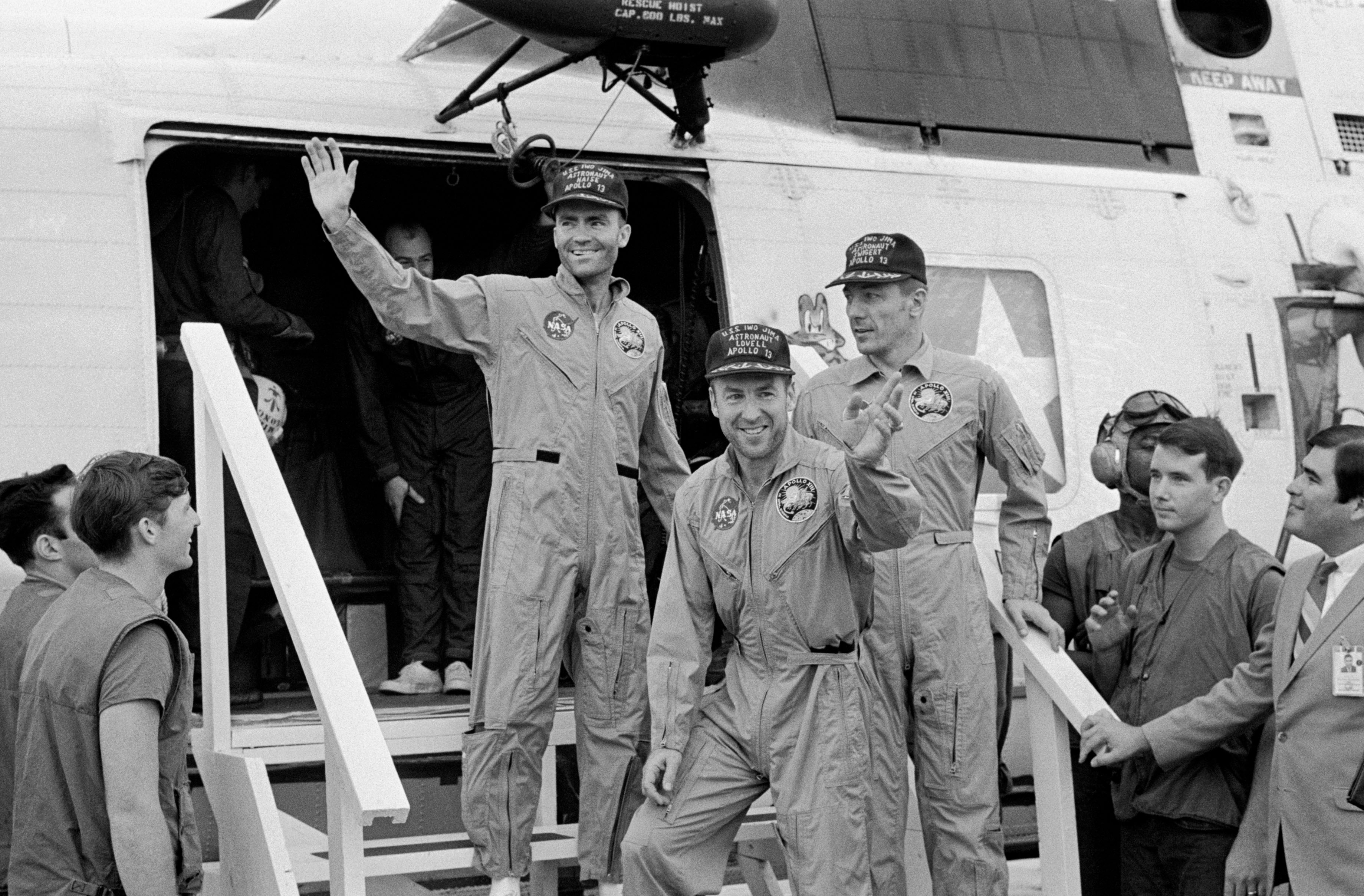 The crewmembers of the Apollo 13 mission, step aboard the USS Iwo Jima, prime recovery ship for the mission, following splashdown and recovery operations in the South Pacific Ocean. Exiting the helicopter which made the pick-up some four miles from the Iwo Jima are (from left) astronauts Fred W. Haise Jr., lunar module pilot; James A. Lovell Jr., commander; and John L. Swigert Jr., command module pilot. The crippled Apollo 13 spacecraft splashed down at 12:07:44 p.m. (CST), April 17, 1970.